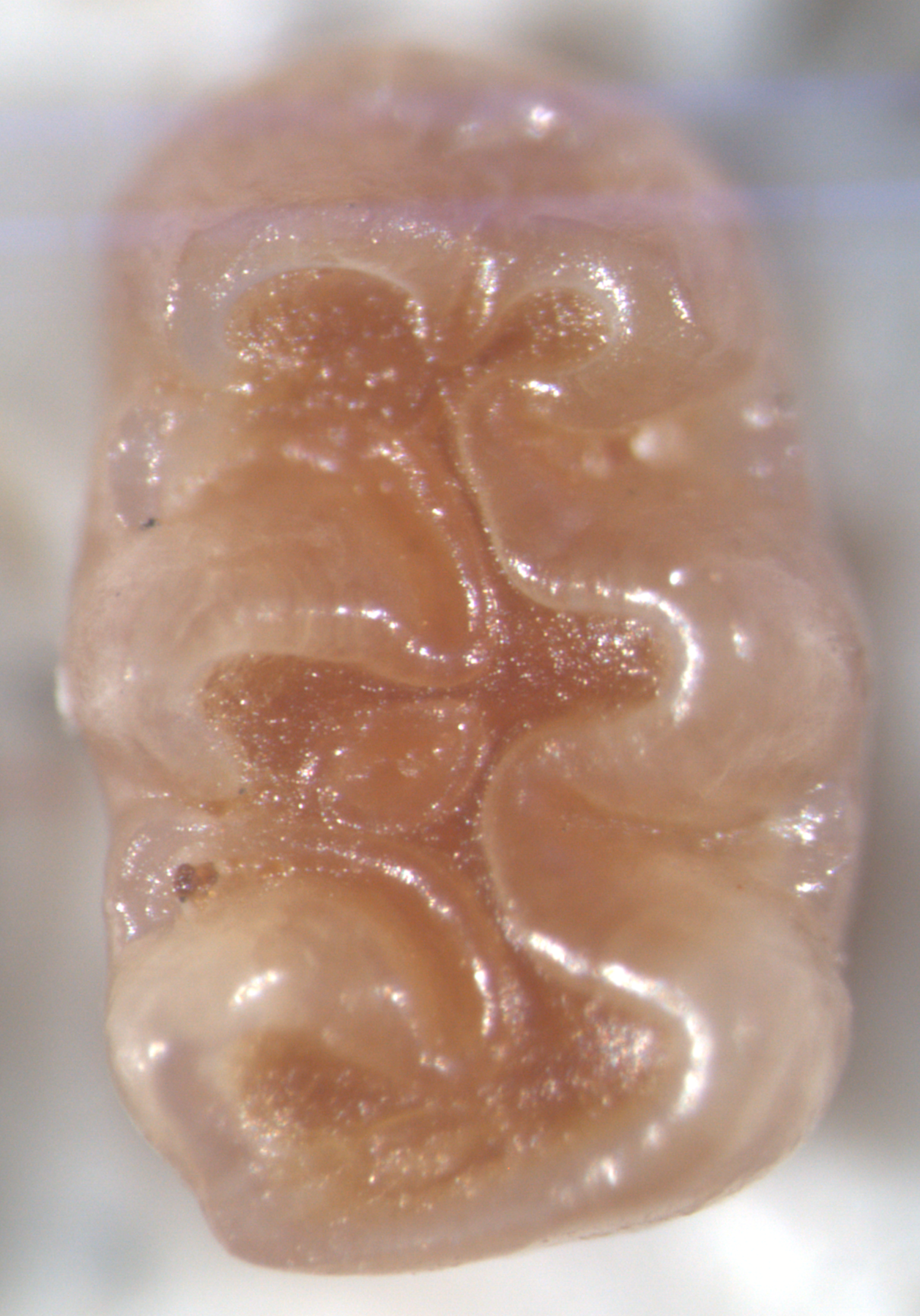 First upper molar (M1) of the fossil sigmodontine rodent Agathaeromys praeuniversitatis from Seroe Grandi, Bonaire (Pleistocene). Collection of the Netherlands Center for Biodiversity Naturalis, number RGM 444022.